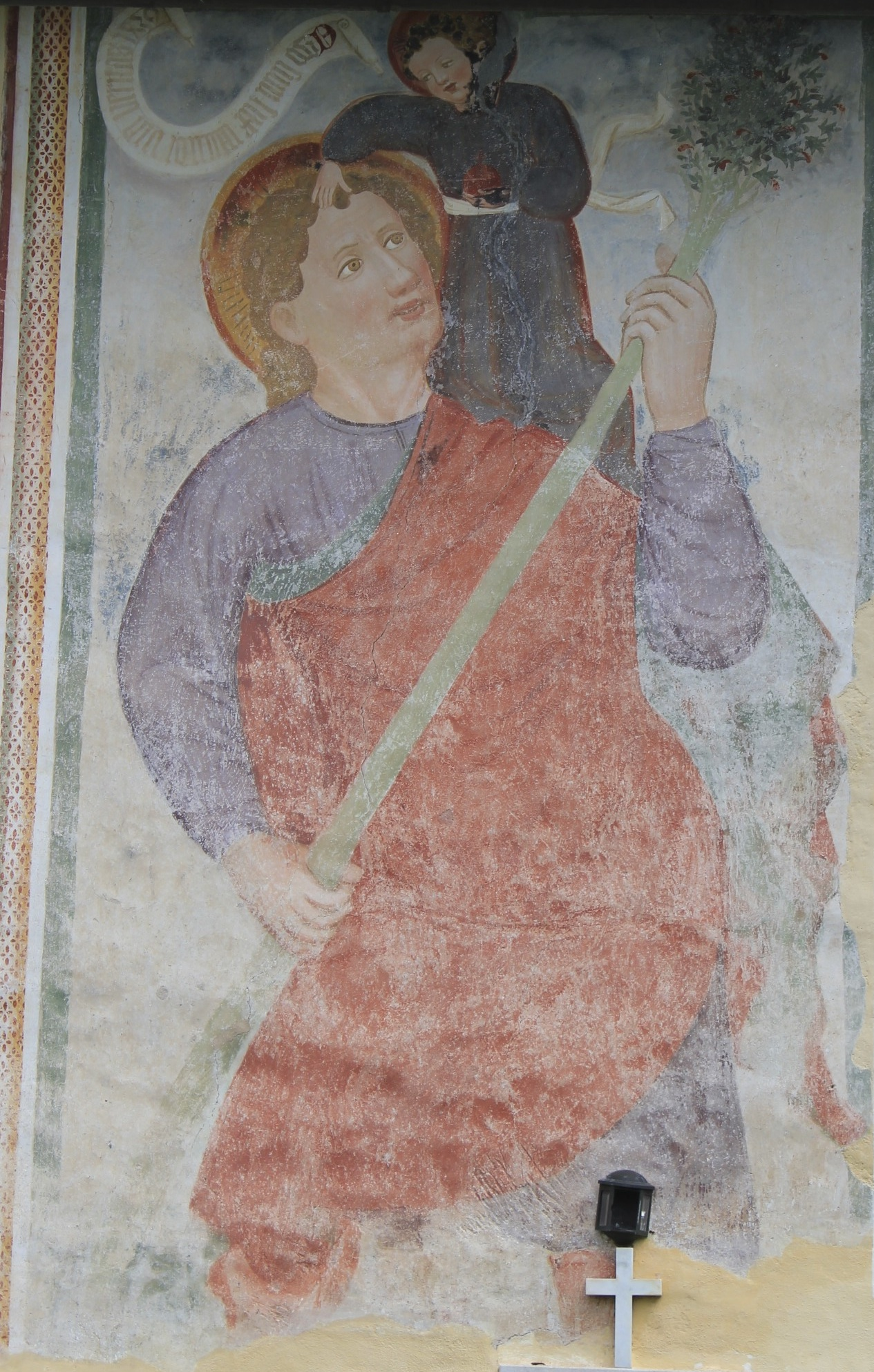 Church in Oberwöllan in the community ofArriach - Saint Christophorus